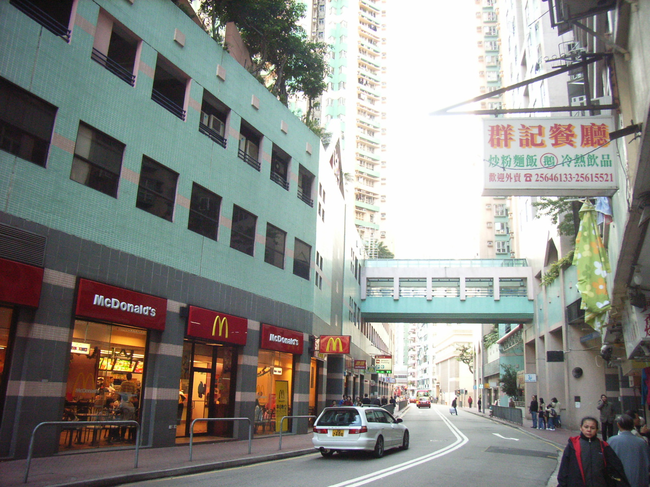 A walkway bridge links the Healthy Village1 and 2 in 七姊妹道（Tsat Tsz Mui Road), North Point, Hong Kong. Photographer is User:Huang Kong Hing